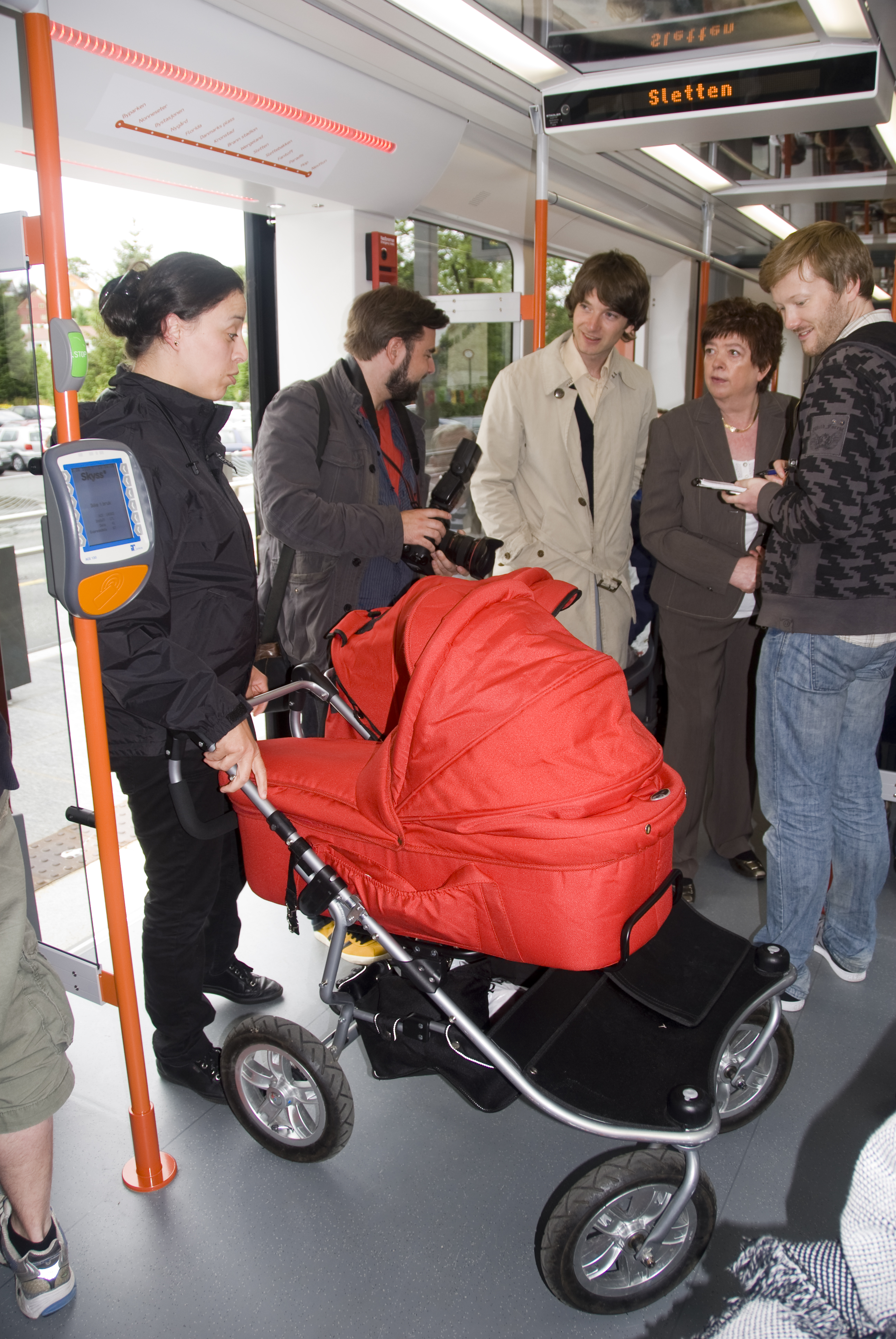 The first perambulator to take the Bergen Light Rail. In the background light rail proponent Eirik Glambek Bøe and opponent Turid Krogh Sveen, flanked by a photographer and journalist from Bergens Tidende.